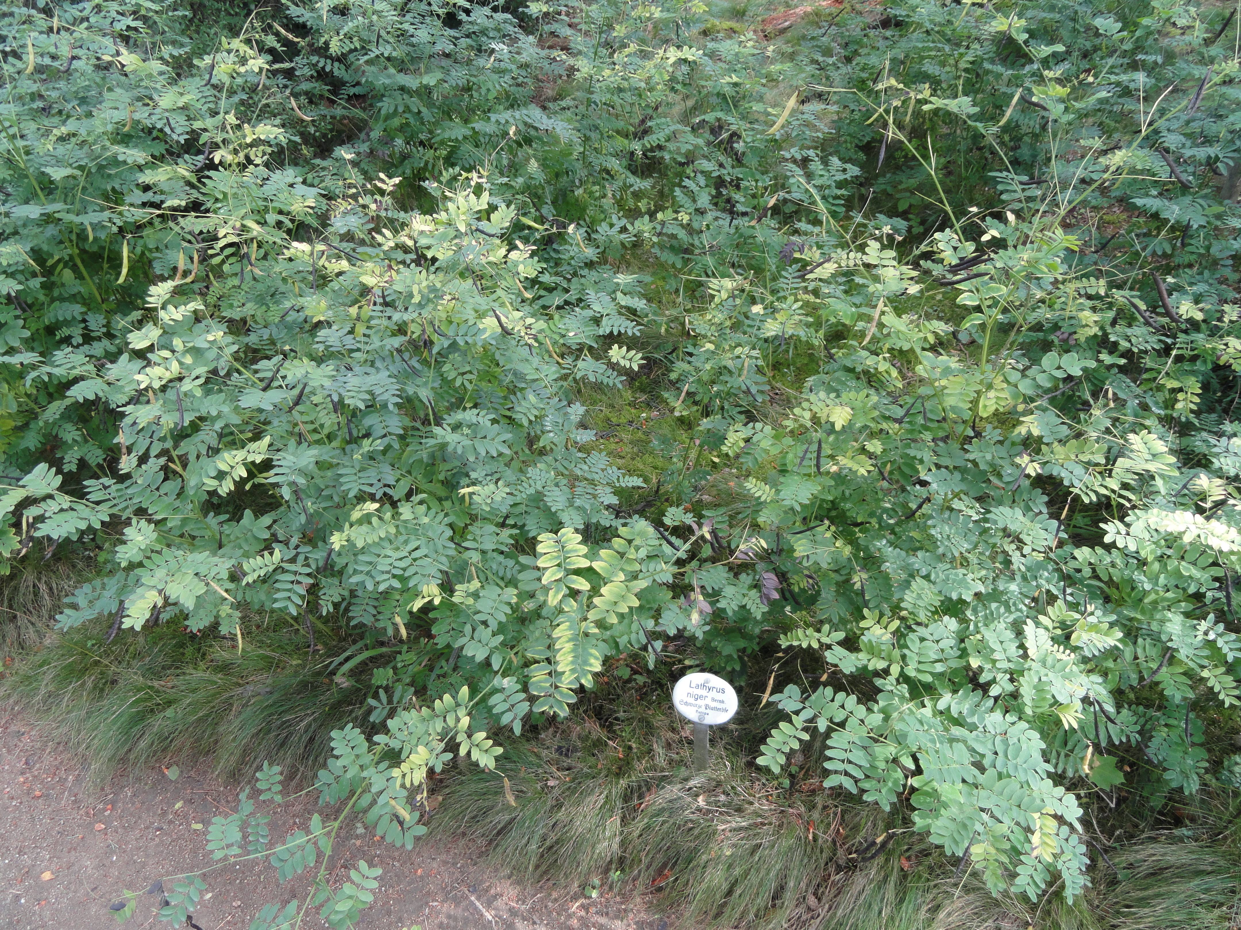 Botanical specimen in the Botanischer Garten, Frankfurt am Main, located at Siesmayerstraße 72, Frankfurt am Main, Germany.